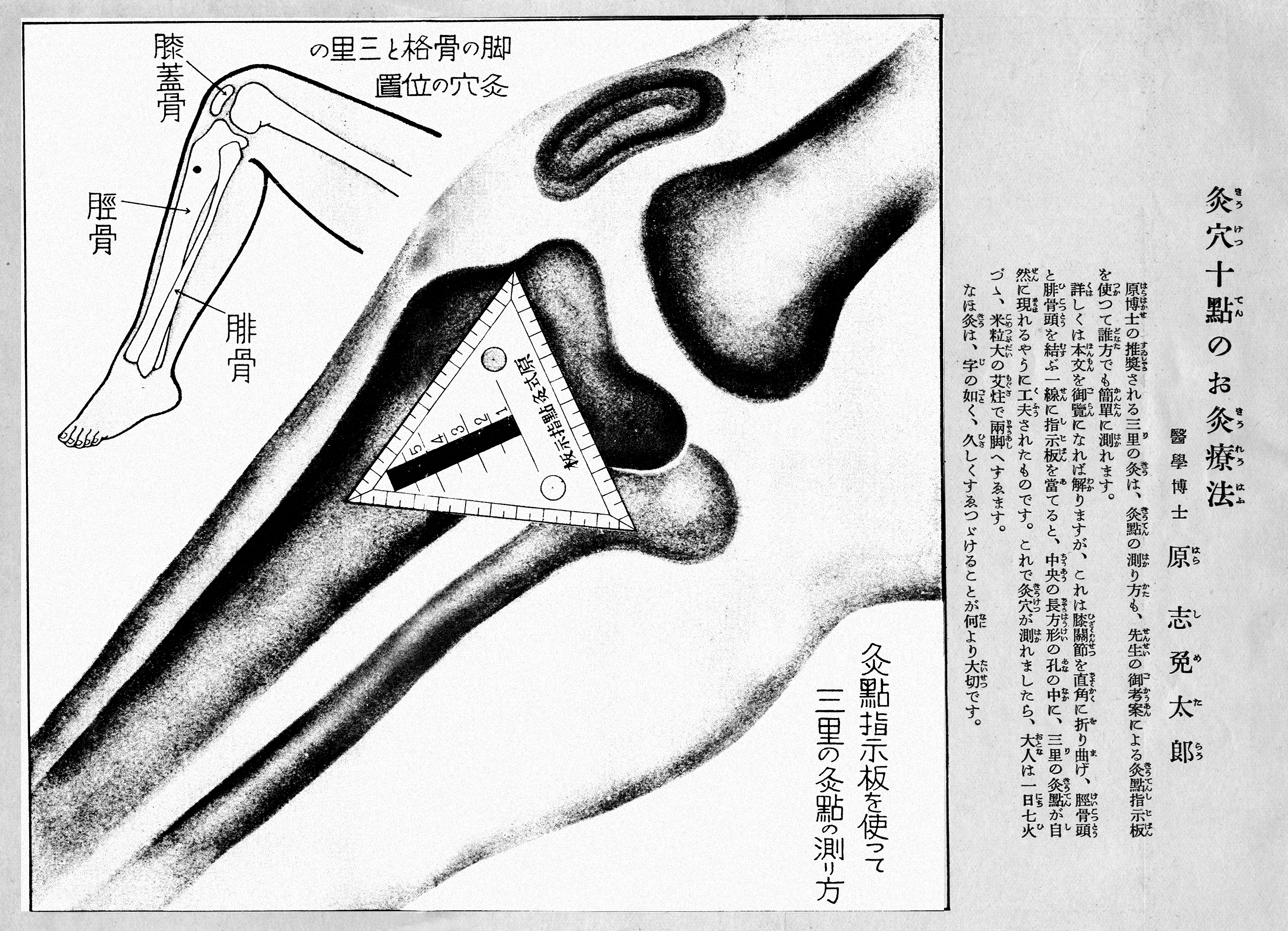 Zusanli (ST 36), a therapeutic point propagated for regular moxibustion by the Japanese physician Dr. Hara Shimetaro (1882-1991) as an effective method to stimulate the immunesystem. From: Saishin kyūryō hōten, Shufu no tomo sha, 1941